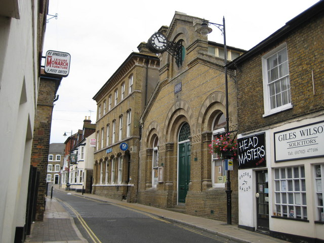 Rochford: The Women's Institute, West Street The building with the clock is now used by the WI, but was built in 1866 as Rochford's Corn Exchange. The clock commemorates Queen Victoria's Diamond Jubilee of 1897, and, I am pleased to relate, was telling the correct time when the photograph was taken. The building fell into disuse around the beginning of the First World War, but appears to have been taken up by the WI during the Second World War. The building beyond is Barclays Bank. The Women’s Institute was formed in 1915 with two purposes, firstly to revitalise rural communities and secondly to encourage women to become more involved in producing food during the First World War.